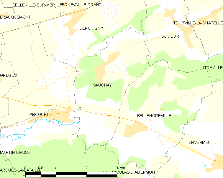 Map of French municipality Sauchay